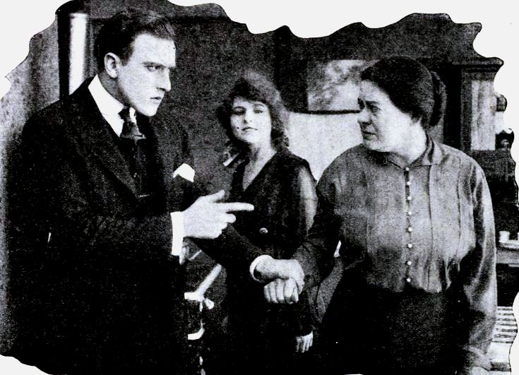 Still from the American film Sold at Auction (1917) with Frank Mayo, Marguerite Nichols, and Ruth Lackaye, page 120 of the September 1916 Motion Picture magazine.